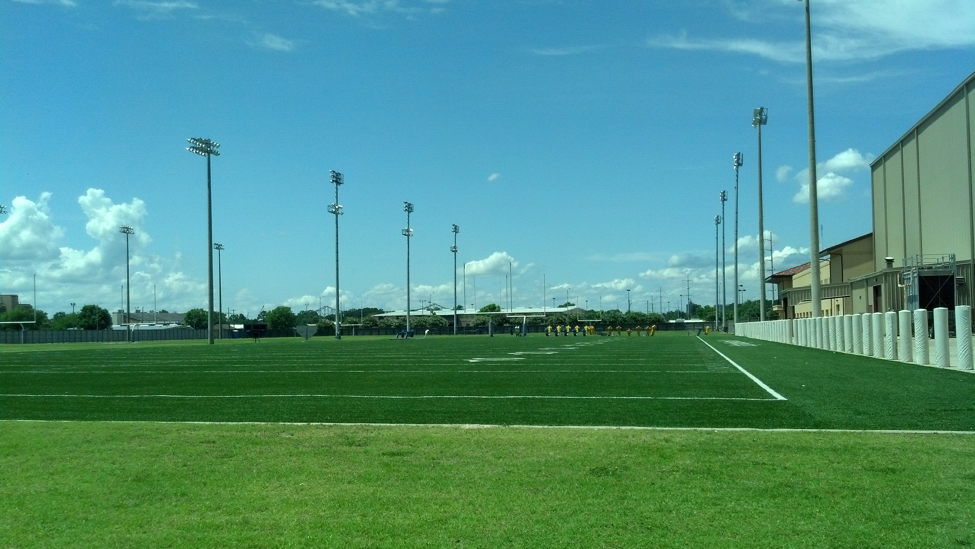 LSU Outdoor Practice Fields at McClendon Practice Facility